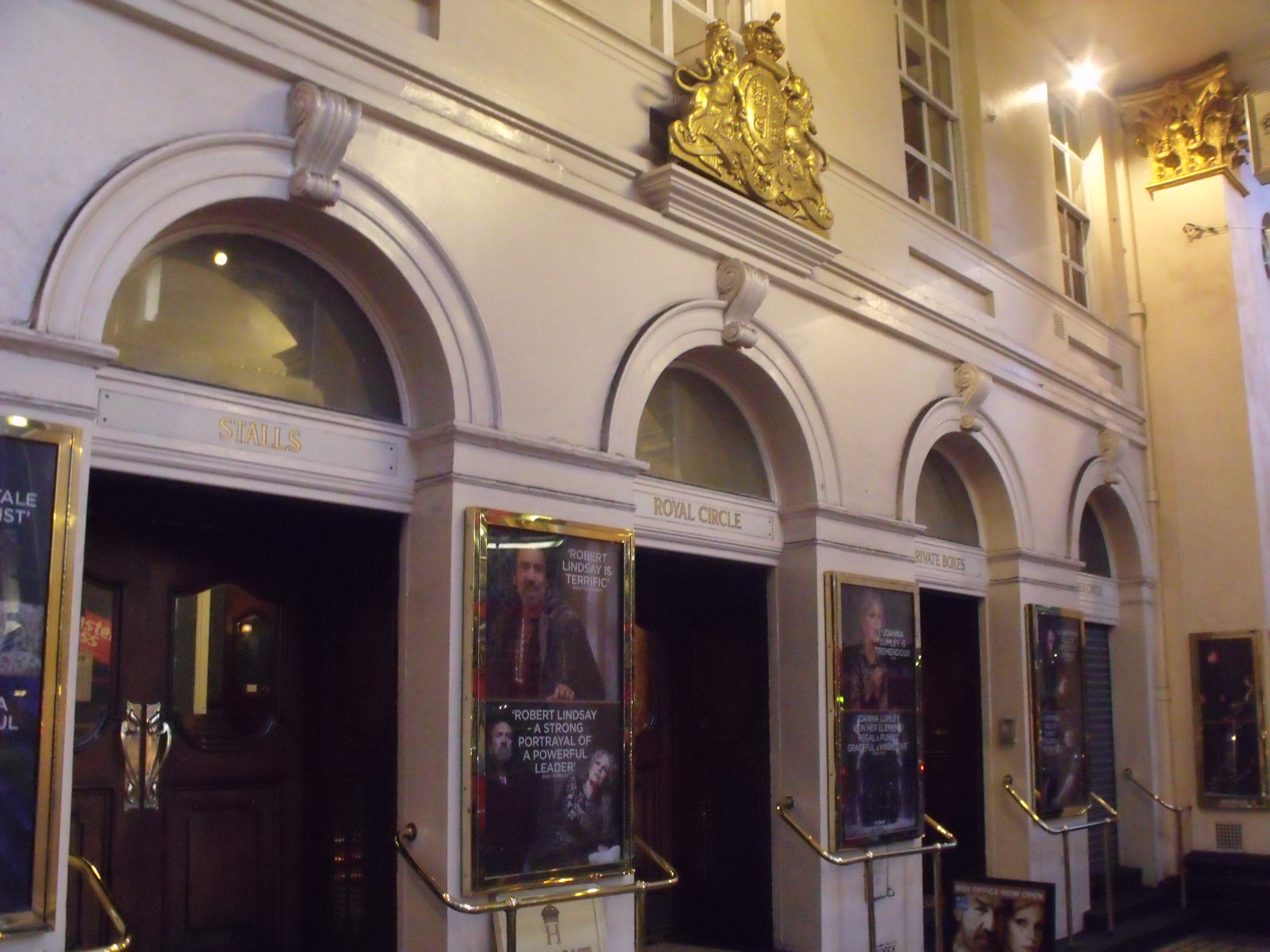 On Haymarket in London. More theatres. One cinema. Theatre showing The Lion In Winter. At the Haymarket Theatre. Grade I listed. The Haymarket Theatre (theatre Royal) TQ 2980 NE and SE CITY OF WESTMINSTER HAYMARKET, SW1 71/98 ; 82/6 The Haymarket Theatre 14.1.70 (Theatre Royal) (Including Nos. 18 and 19 Suffolk Street) G.V. I Theatre. Rebuilt 1820-21 by John Nash, contemporary with his Regent Street and Suffolk Street development, and resited to close Charles II Street vista. Stucco, slate roof. Augustan neo-classicism. 2 storeys and lofty sheer attic storey. 7 window bays wide. Giant pedimented portico of 6 Corinthian columns built out over pavement with entrance doorway to each flank with oculus above. The back wall of portico has 5 archivolt and key arched doorways with 5 architraved sash windows to 1st floor. The modillion bracket cornice of portico is returned across the flanks. The tall sheer attic wall above portico is pierced by a row of radial glazed oculi set in panel below frieze which with main cornice and blocking course extends the width of the facade. Rear to Suffolk Street is stuccoed, 4 storeys, 5 windows wide; rusticated ground floor with central rusticated- pilaster, corniced doorway ; 1st floor has arcaded windows (unique theatre feature in that they give directly on to the backstage) with sunk panels beneath sills; cornice below attic storey with elliptical windows between sunk panel pilasters. Auditorium redesigned in elegant 'Louis XVI' style in 1904 by C Stanley Peach. Survey of London; Vol. XX. The Theatres of London; Mander and Mitche